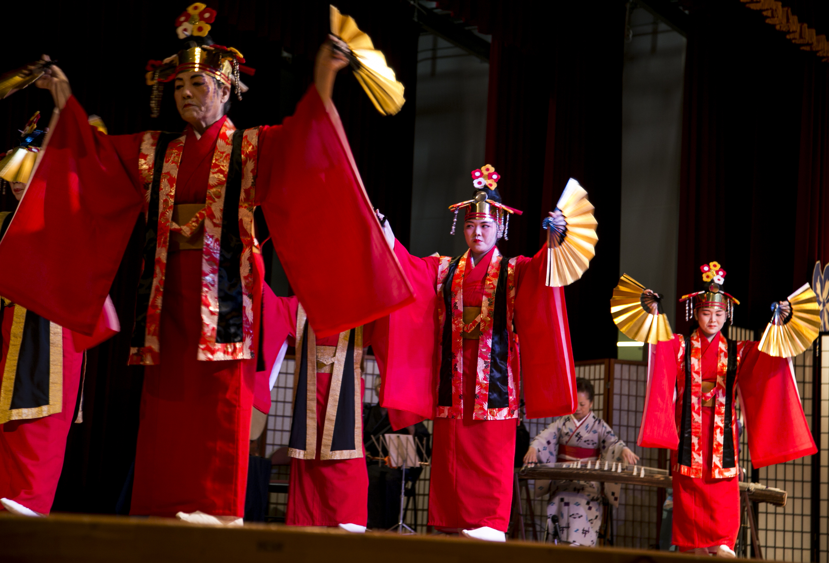 Performers dance to the Akauma Bushi November 29 at the performing arts auditorium on Camp Foster, during an Okinawa dance and culture performance. The Akauma Bushi is traditionally performed on the Yaeyama Islands for royalty at the beginning of banquets and concerts, according to an informational pamphlet handed out at the performance. The performers danced to traditional live music by musicians using cultural instruments such as the Koto, a stringed instrument, and a Shakuhachi, a vertical bamboo flute. The performance educated service members and their families on the different styles of traditional Okinawa music, clothing and dancing. (U.S. Marine Corps photo by Lance Cpl. Brittany A. James/Released)